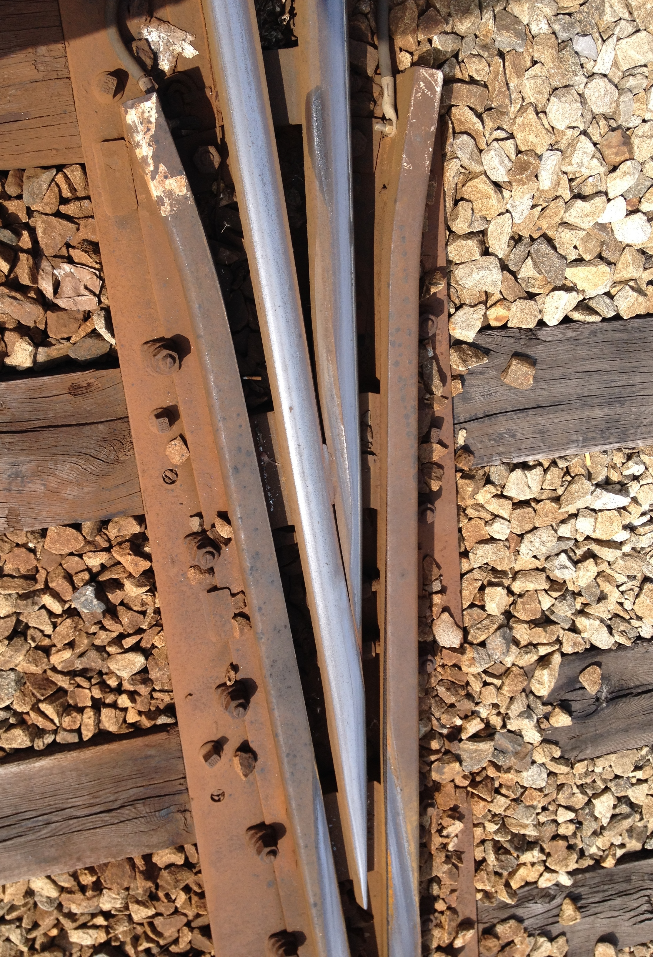 railroad switch welded frog